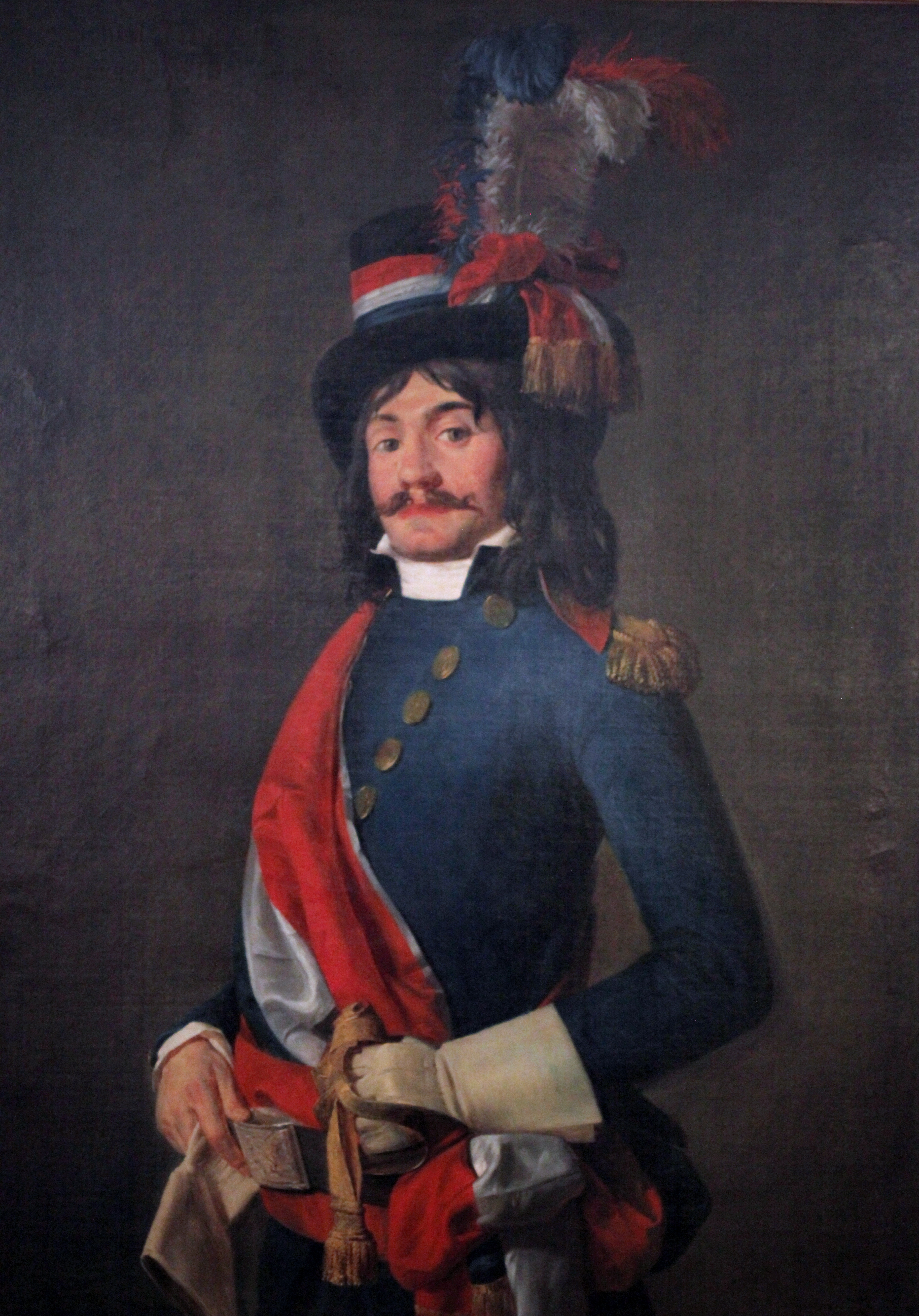 Édouard Jean Baptiste Milhaud, deputy of the Convention, in his uniform of representant of the People to the Armies. Lent by the Louvre in 1991.